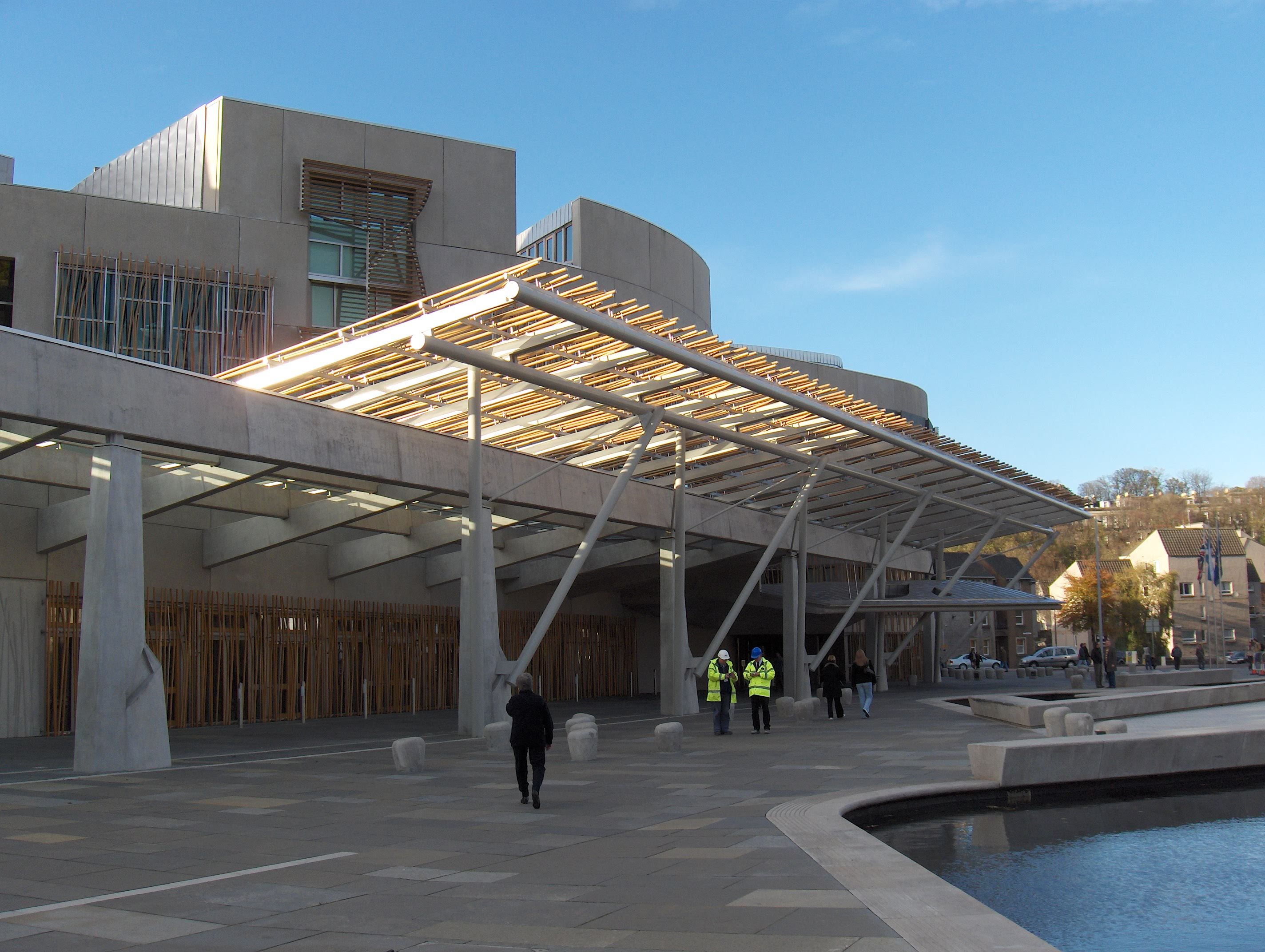 Scottish Parliament frontal view